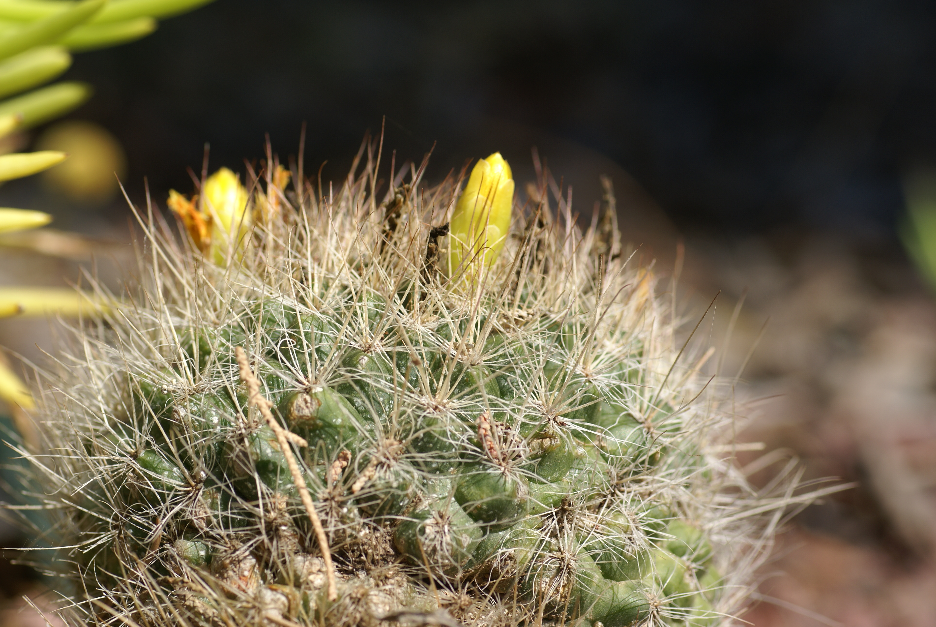 Plant species Mammillaria weingartiana in Jardín Botánico La Concepción, Malaga, Spain